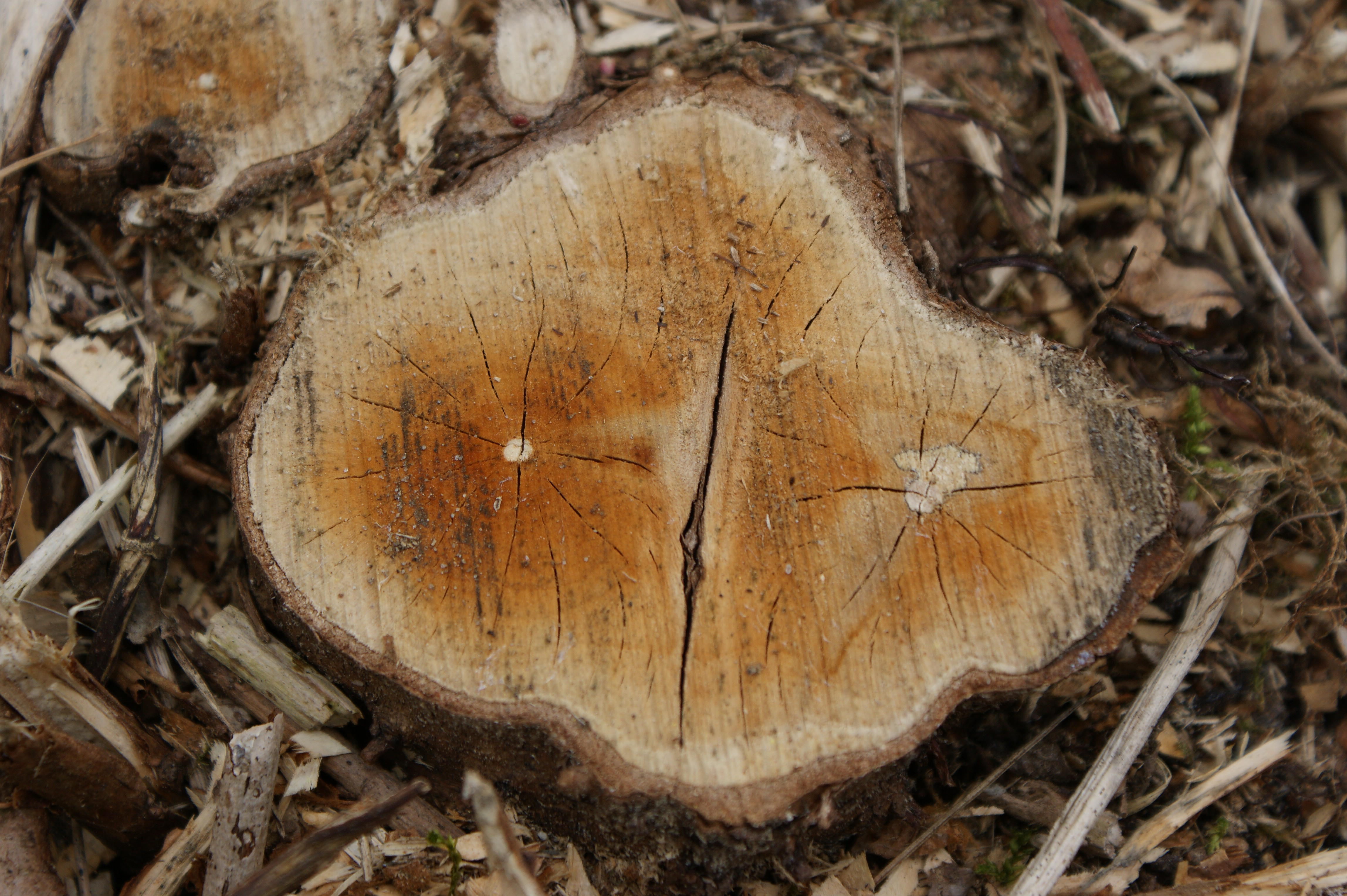 Viburnum opulus, cross section of trunk